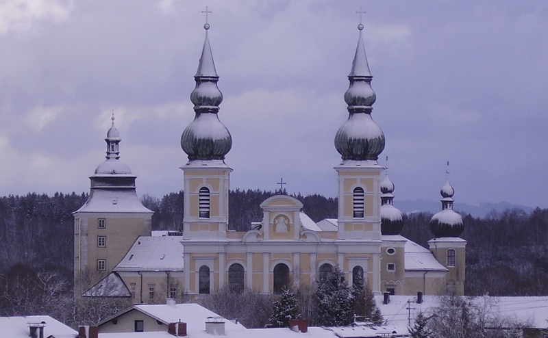 Puchheim Palace with the basilica, city of Attnang-Puchheim